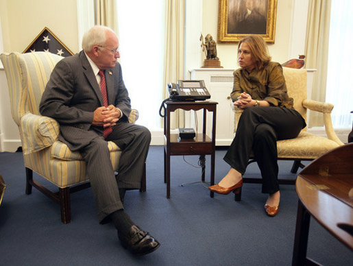 Vice President Dick Cheney of the United States meets with Minister of Foreign Affairs Tzipi Livni of Israel at the White House.